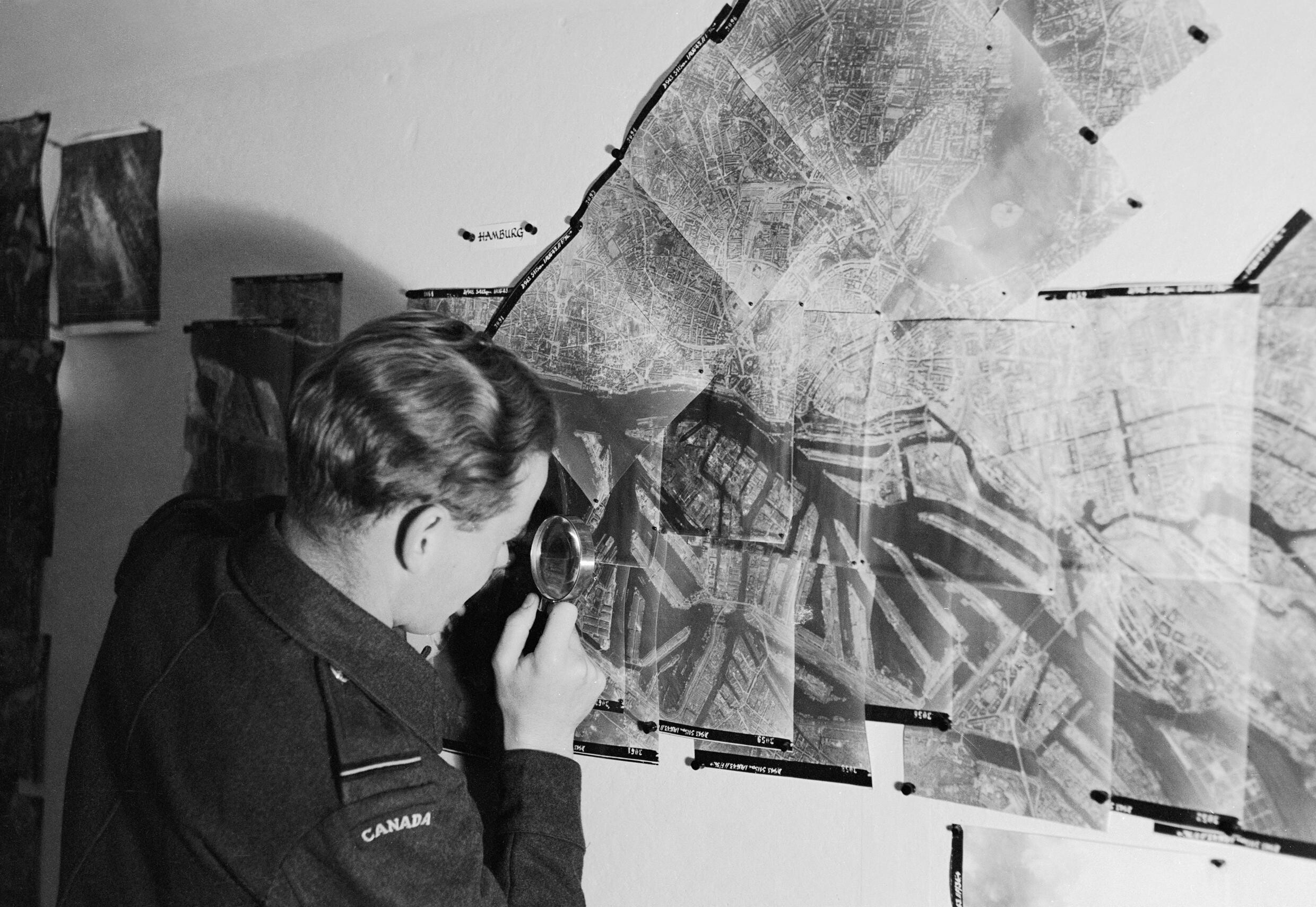 A Canadian photographic reconnaissance pilot examining a mosaic of Hamburg docks at Benson, Oxfordshire, August 1943. A Canadian photographic-reconnaissance pilot examining a mosaic of Hamburg docks at Benson, Oxfordshire.